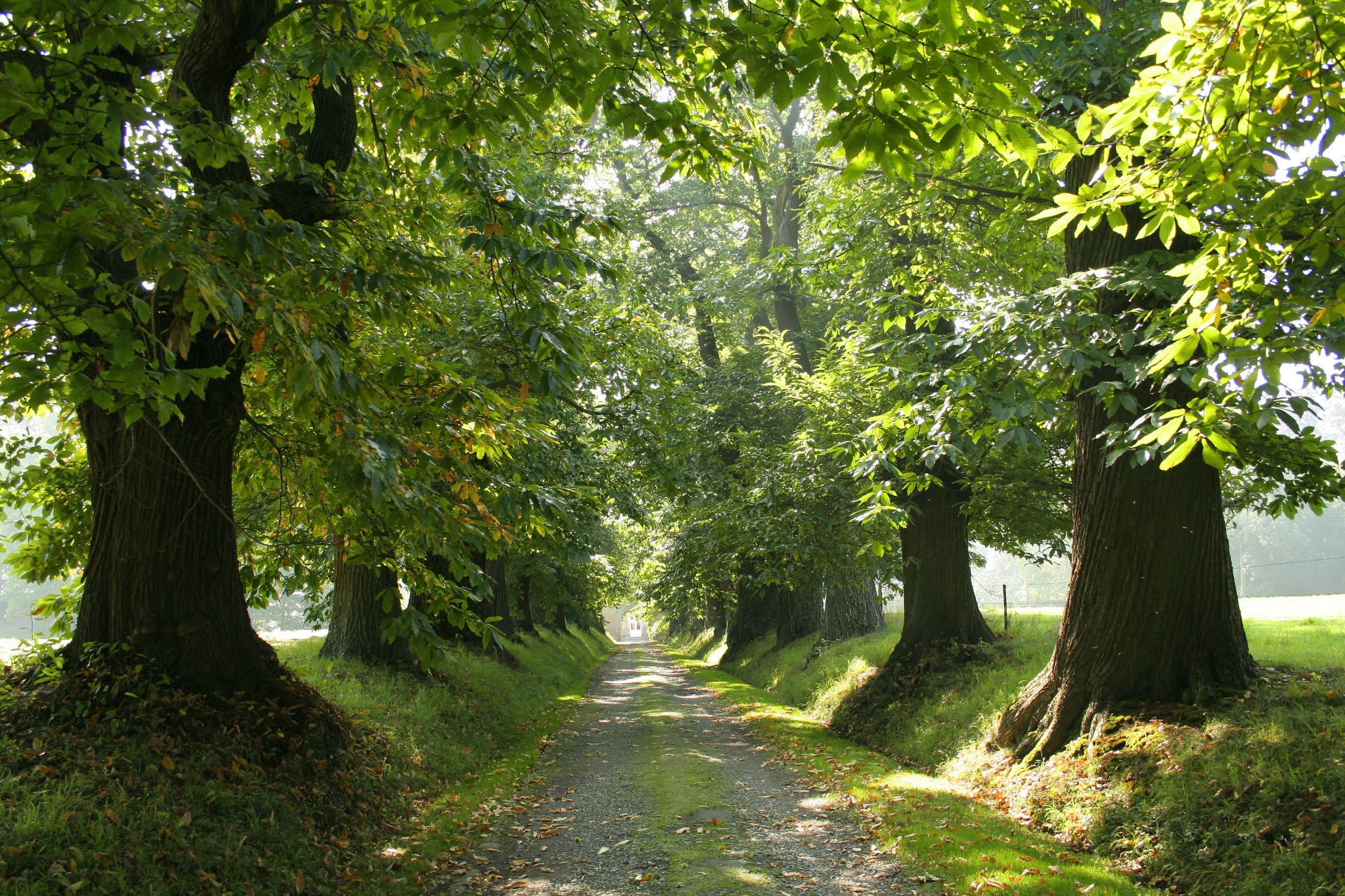 Strée-lez-Huy (Belgium), castle avenue of remararkable chestnuts (Castanea sativa) with the largest measuring copy 573cm to 1.50m from the ground.